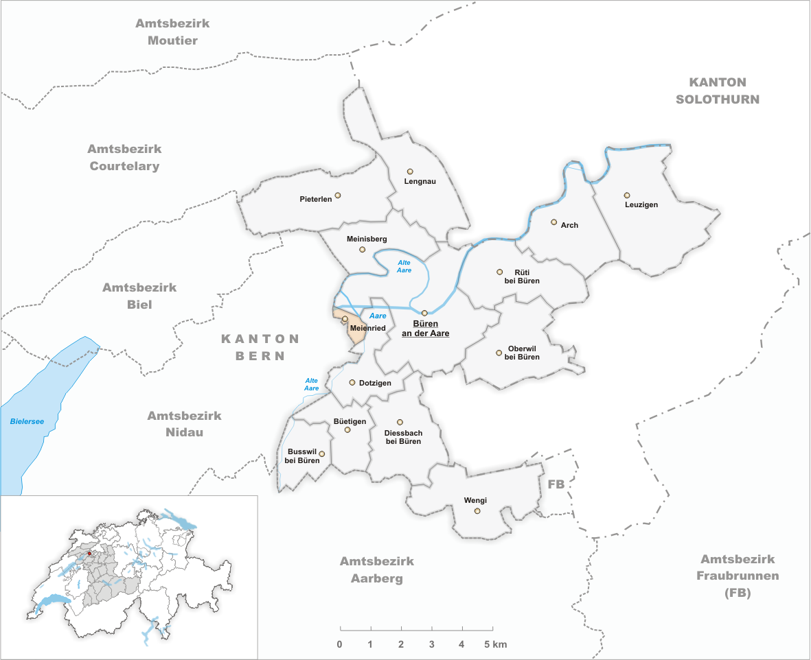 Municipality Meienried